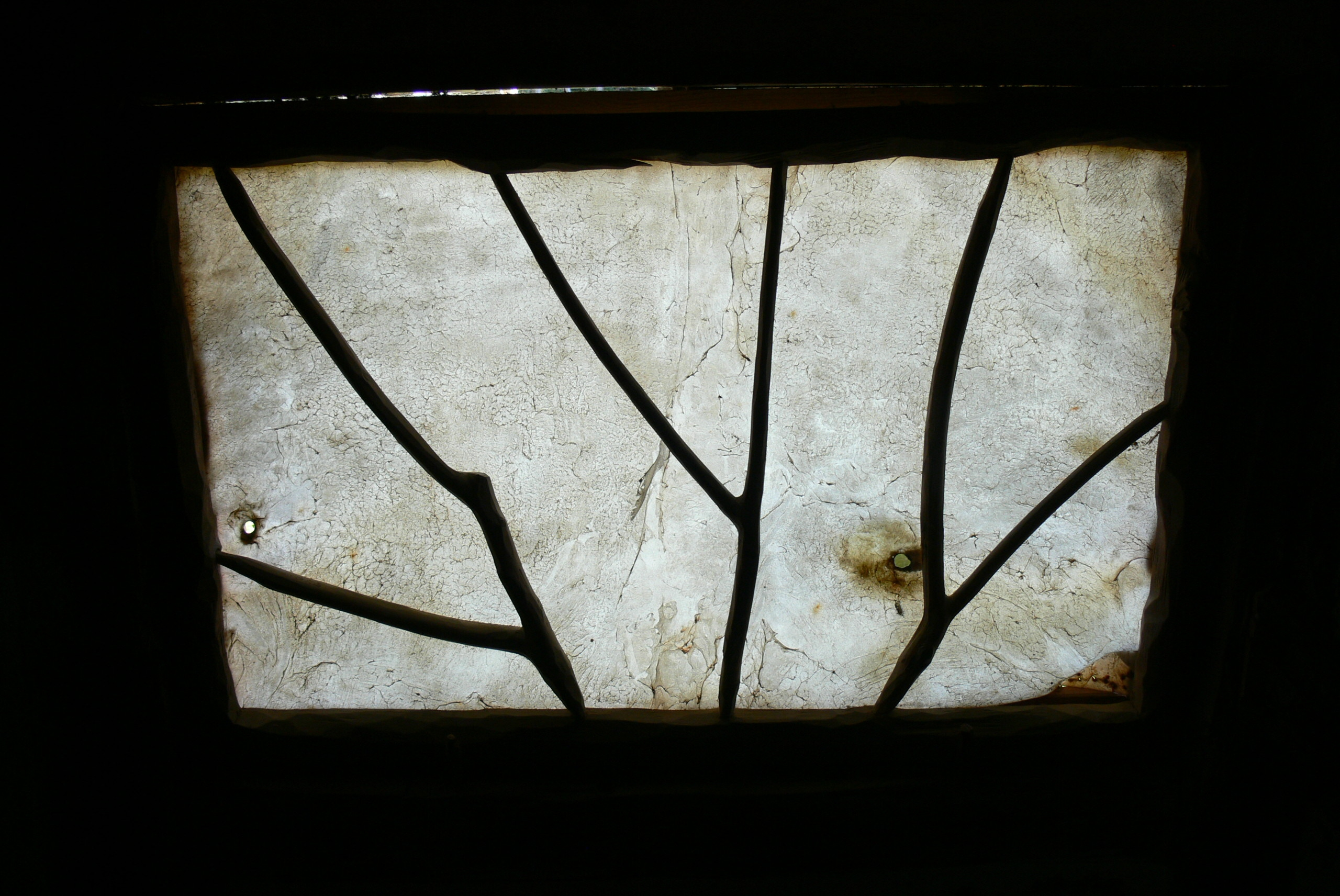 Celtic village in Mitterkirchen ( Upper Austria ). Reconstruction of a Celtic chieftain´s house - window made of animal hide.